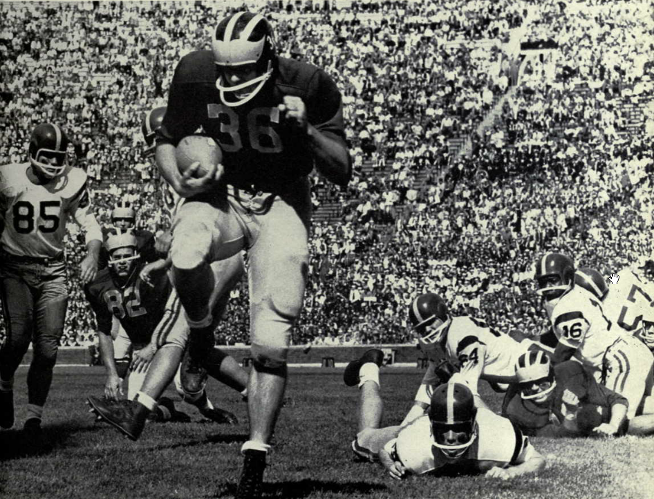 Photograph of John Herrnstein scoring a touchdown in a football game against the USC Trojans on September 27, 1958